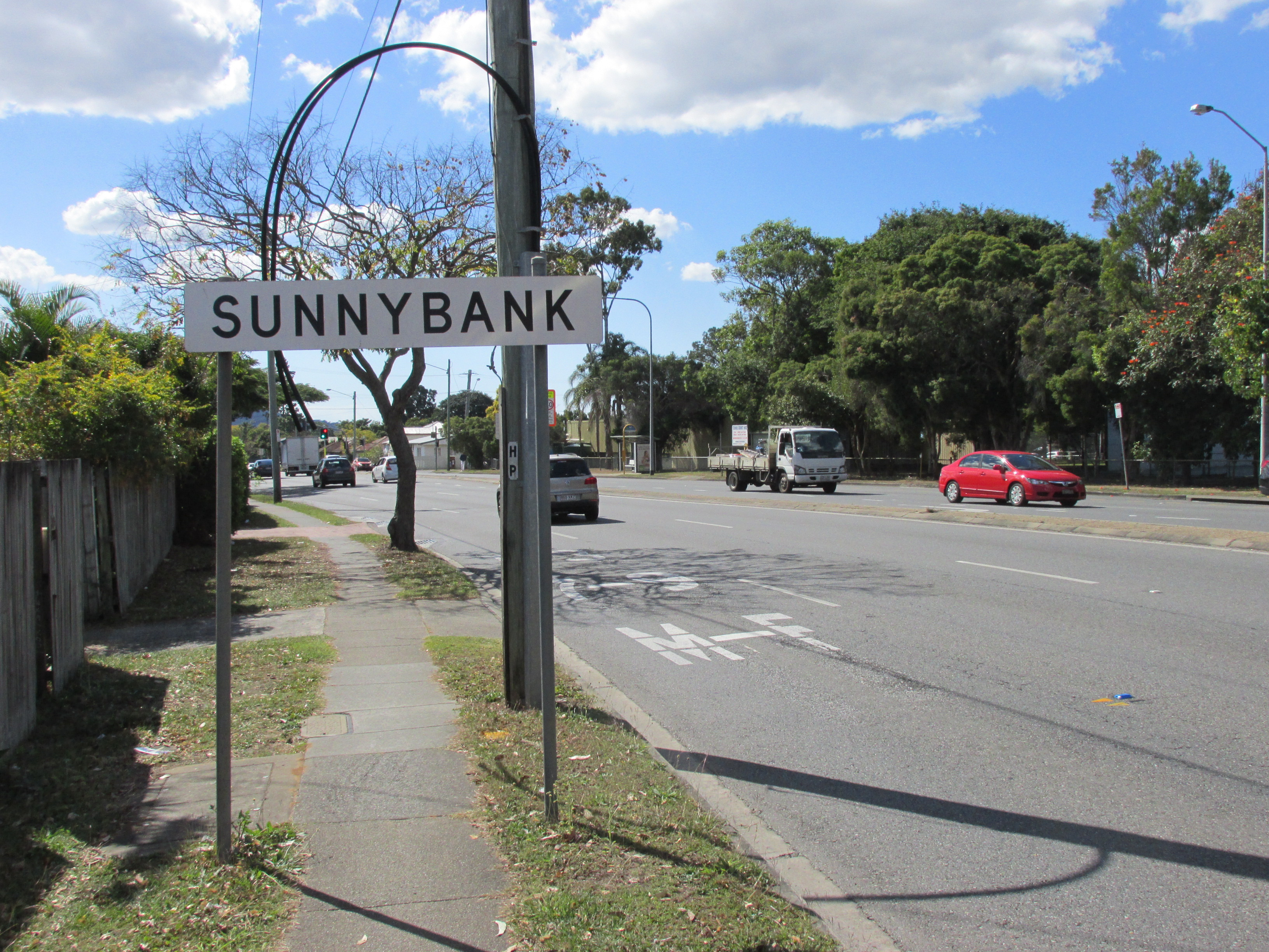 Sign at the entrance to Sunnybank on Mains Road, near Beenleigh Road, Sunnybank, Queensland.